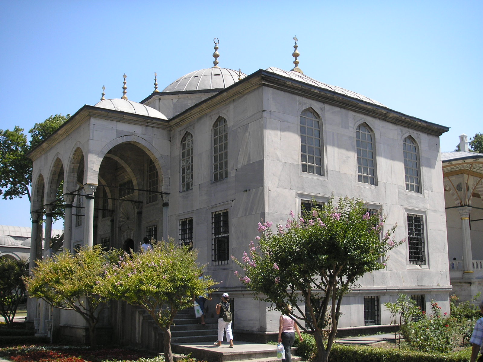 The Neo-classical Enderûn Library (Enderûn Kütüphanesi), also known as Library of Sultan Ahmed III (III. Ahmed Kütüphanesi), is situated directly behind the Audience Chamber (Arz Odası) in the centre of the Third Court of the Topkapi Palace in Istanbul.